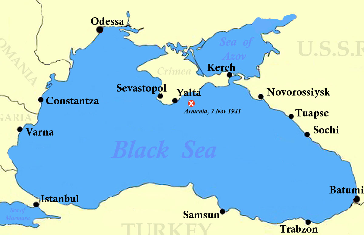 Color map showing approximate site of sinking, MV Armenia, 7 Nov 1941